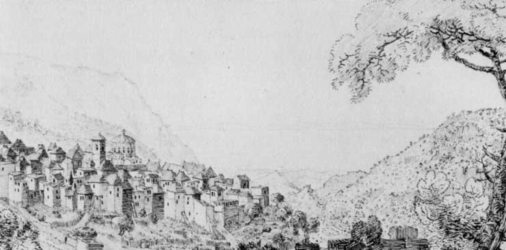 Chios, Nea Moni